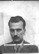 Wartime Badge Photo of Nicholas Metropolis